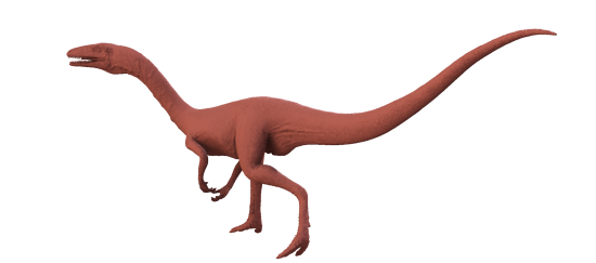 Compsognathus digital clay reconstruction